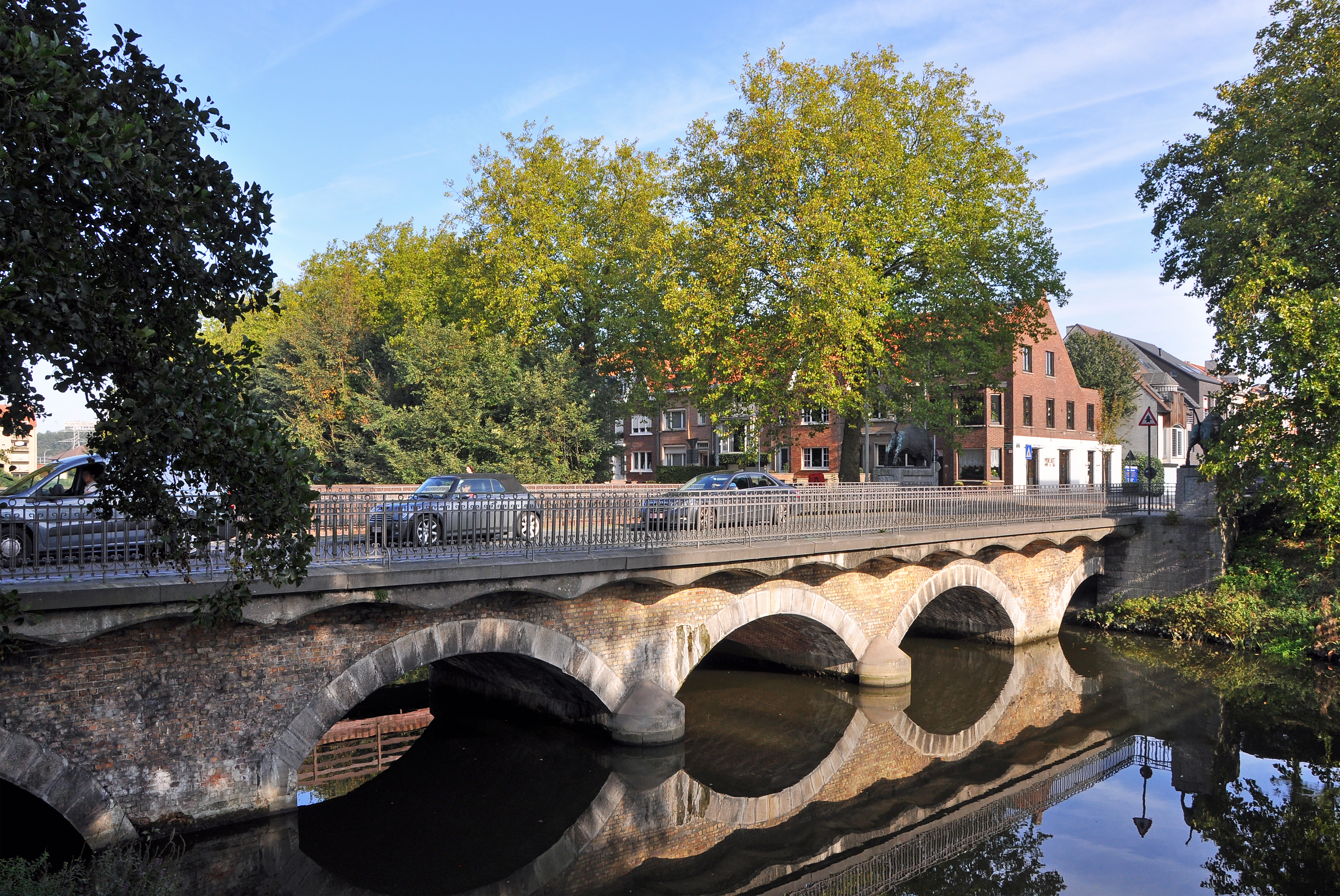 Bruges (Belgium): Canada bridge